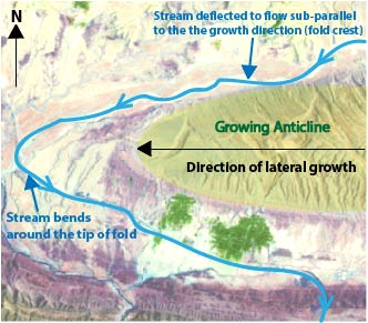 Annotated satellite image obtained by Landsat ETM+ 7. It indicates how stream pattern changes as a response to lateral growth of an anticline.